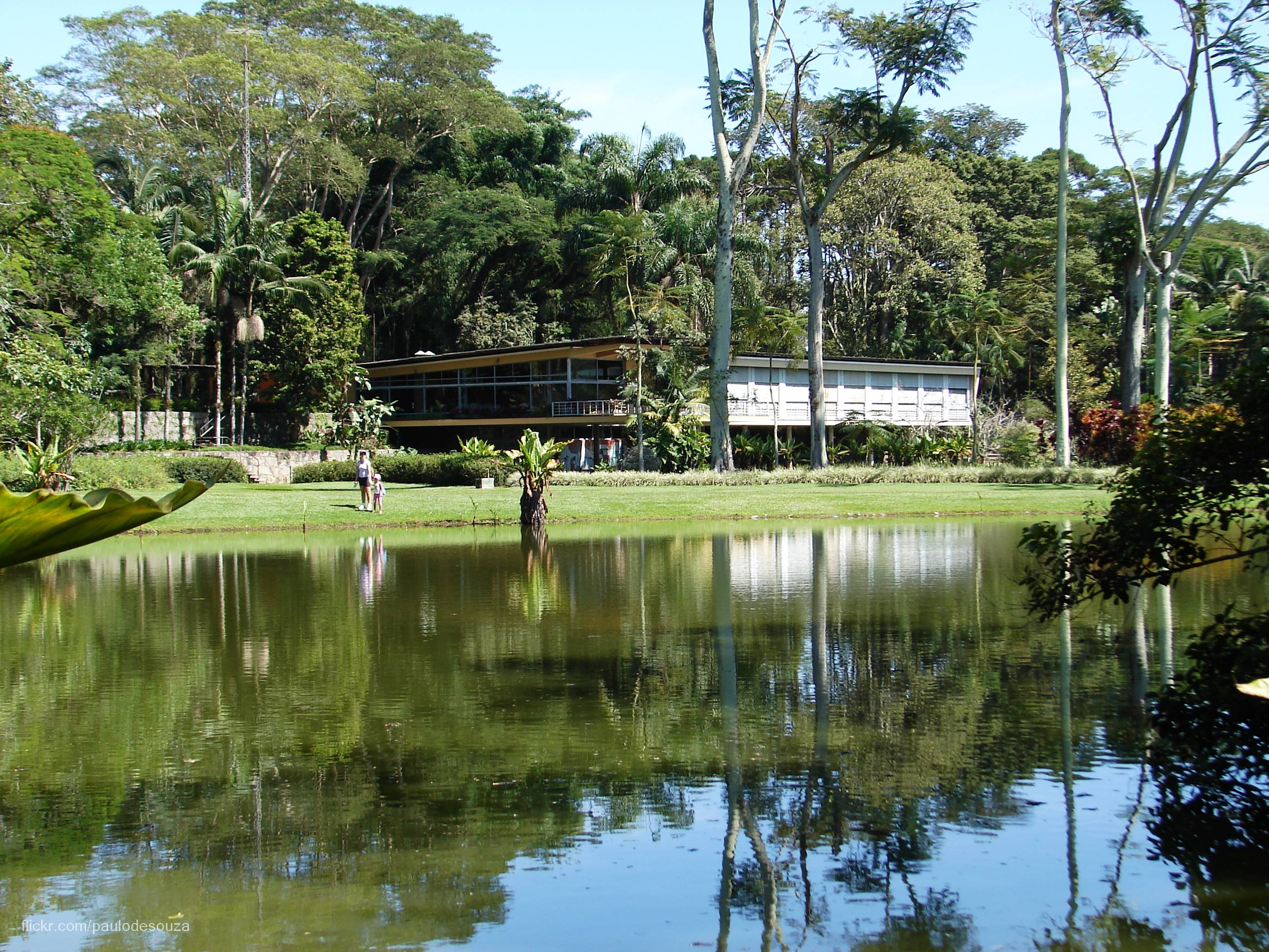 View of the City Park, in São José dos Campos, São Paulo, Brazil.